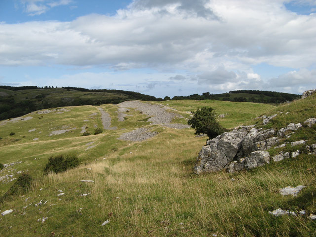 Rampart, Pen-y-corddyn Mawr Only the northern side of the hillfort is without a natural defence, so a neat pair of ramparts run east to west and define the hilltop stronghold. As there is very little soil up here, the ramparts are built of broken limestone heaped up and looking today very like the lower scree slopes.